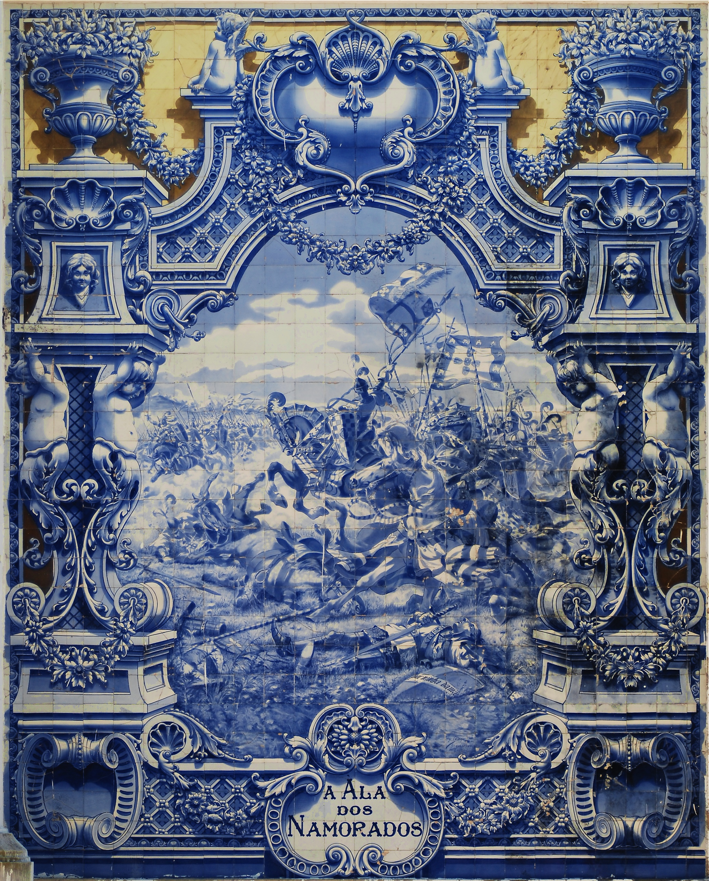 Panel of glazed tiles from Jorge Colaço (1922) representing an episode of the battle of Aljubarrota (1385) between the Portuguese and Castillian armies. Lisboa, Pavilhão Carlos Lopes.